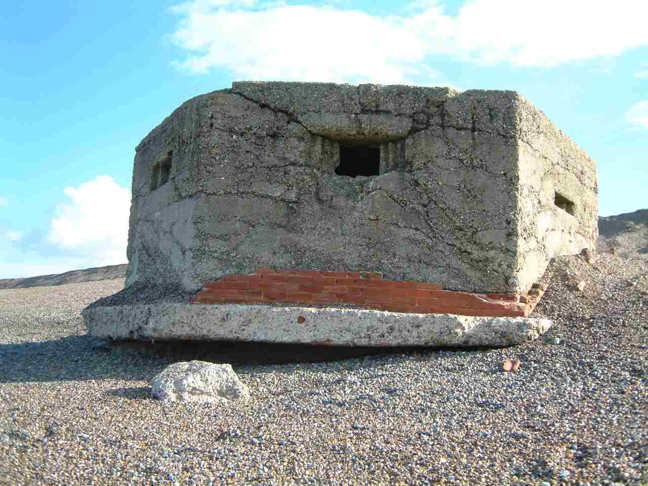 WW2 Type 22 Pillbox on the shingle beach at Kelling North Norfolk England Taken March 2004 by John Beniston (palmiped)